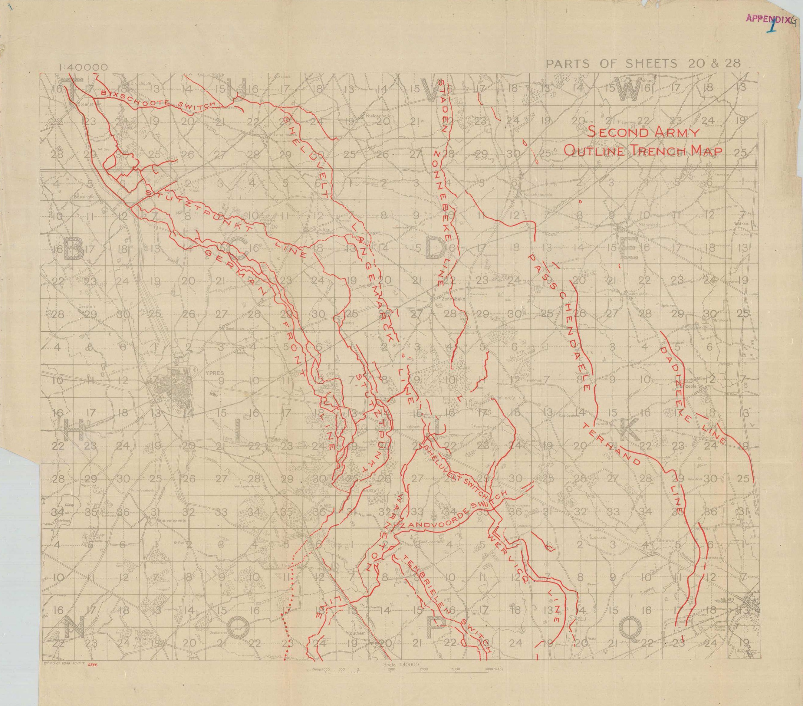 1:40000 scale trench map detailing the location of German trench lines apposite the British 2nd Army.